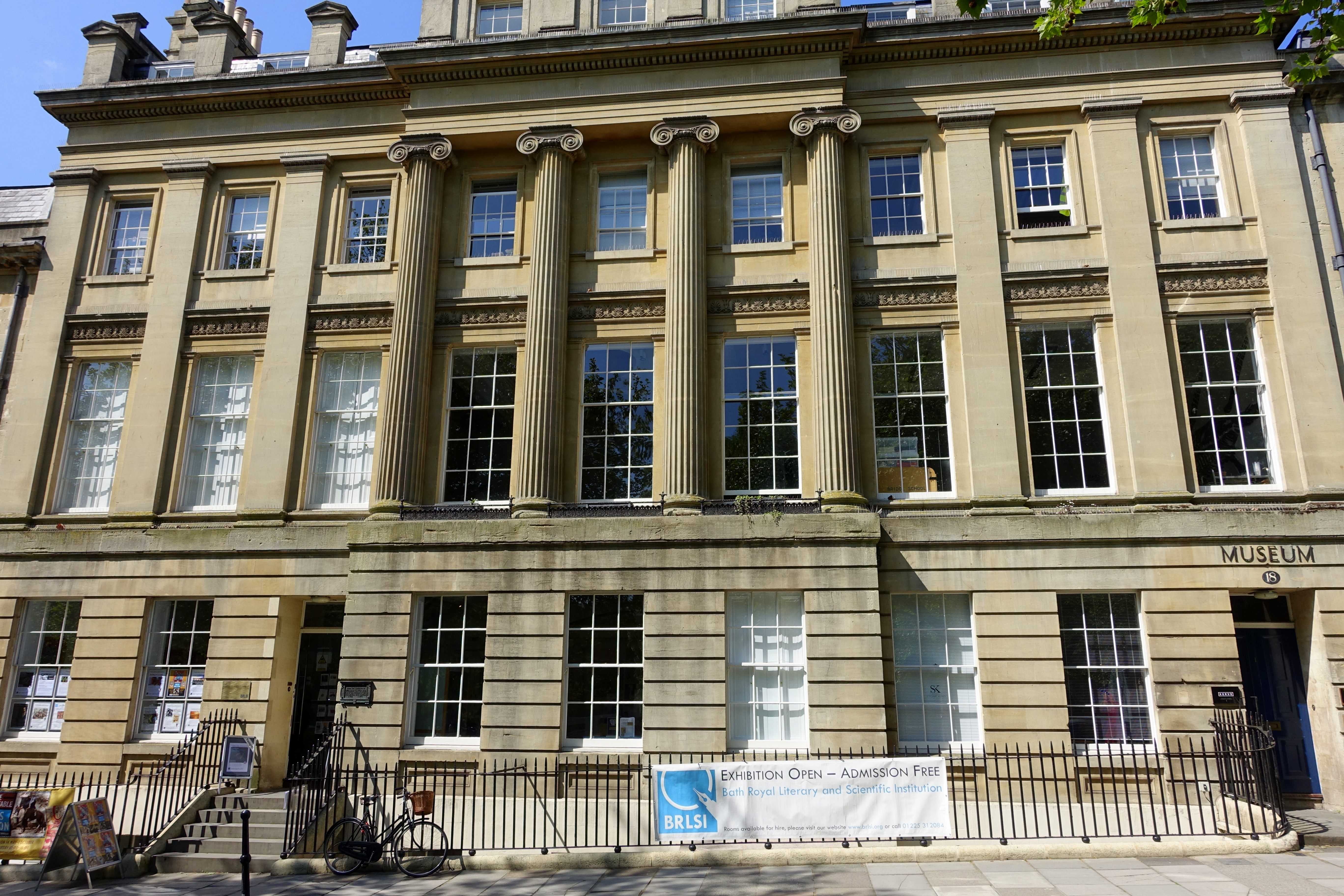 Bath Royal Literary and Scientific Institution - 16–18, Queen Square, Bath, England.